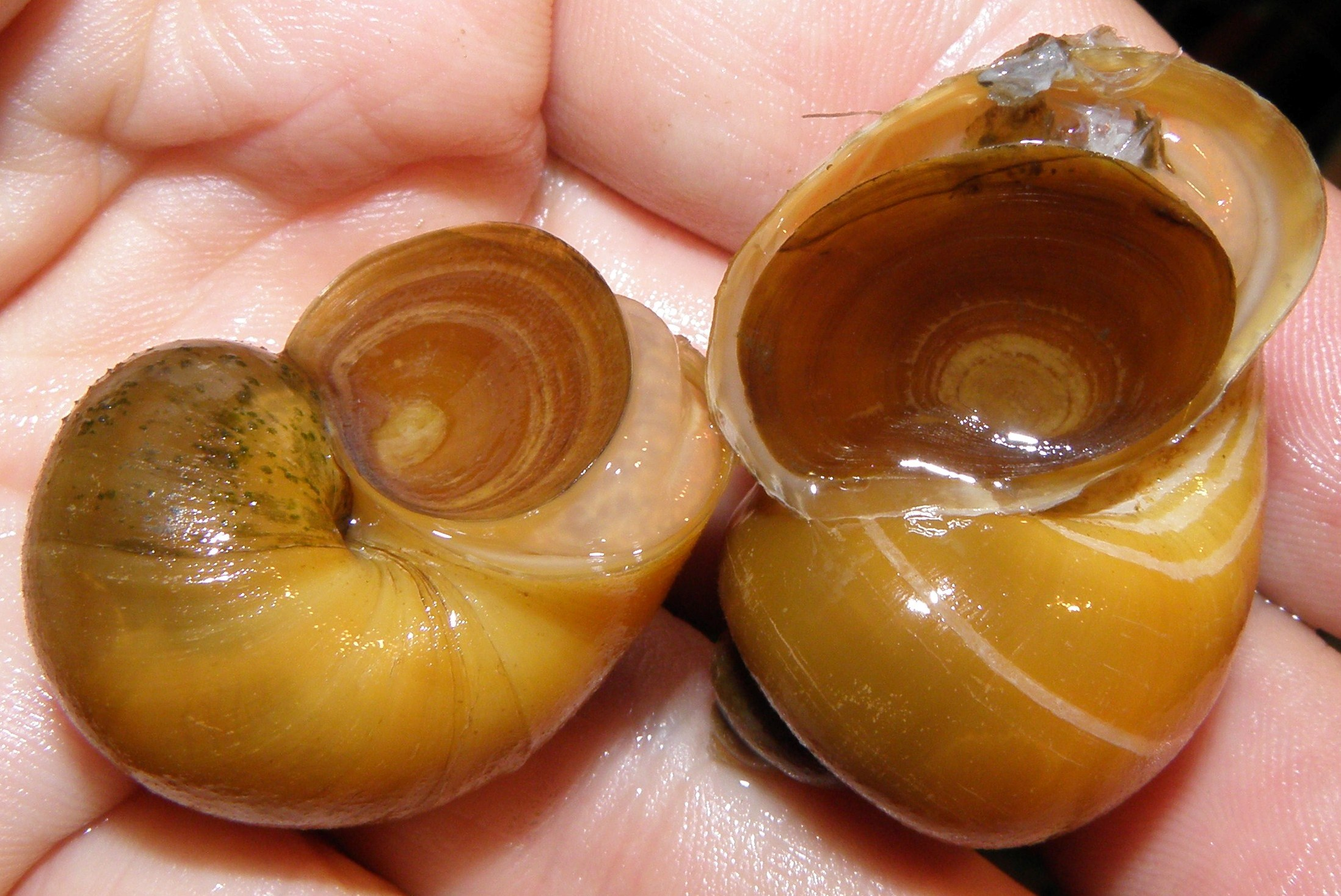 Spike-topped apple snail (Pomacea diffusa).